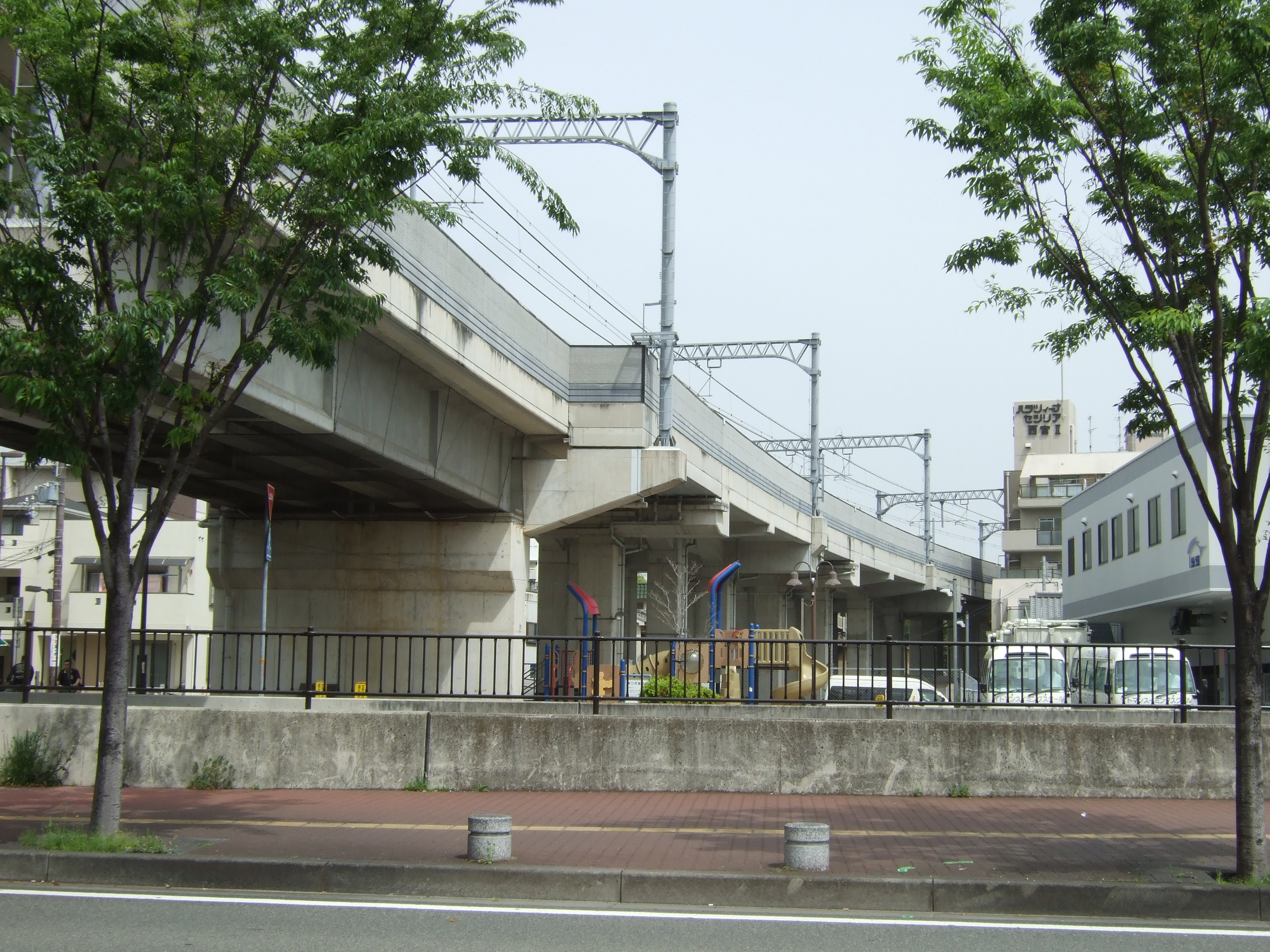 Site of Nishinomiya-Higashiguchi Station temporary platform